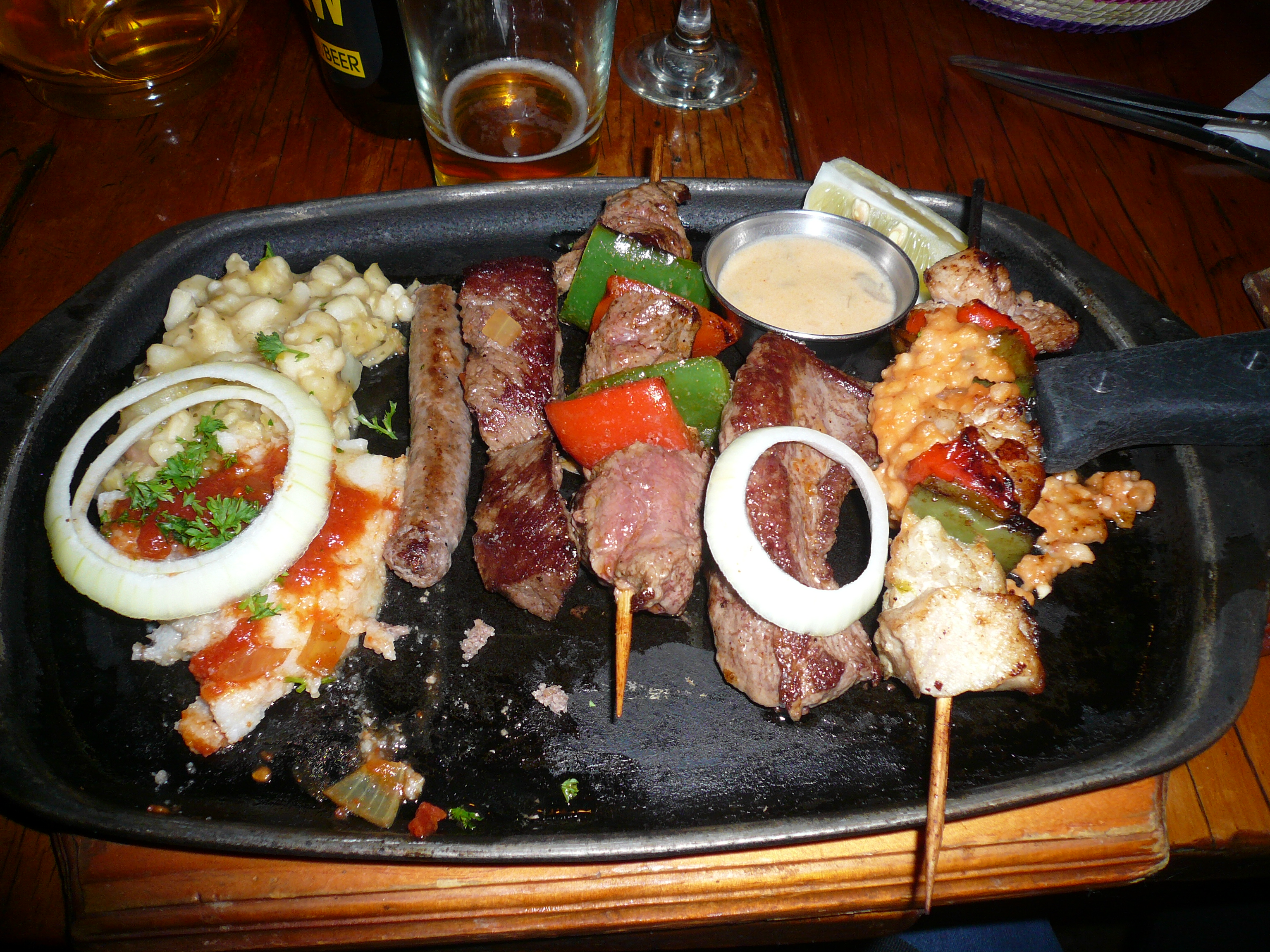 Fried meat of african animals: 1. Venison Sausage 2. Kudu 3. Ostrich 4. Springbok 5. Crocodile. Restaurant "Mama Africa", Cape Town, RSA.